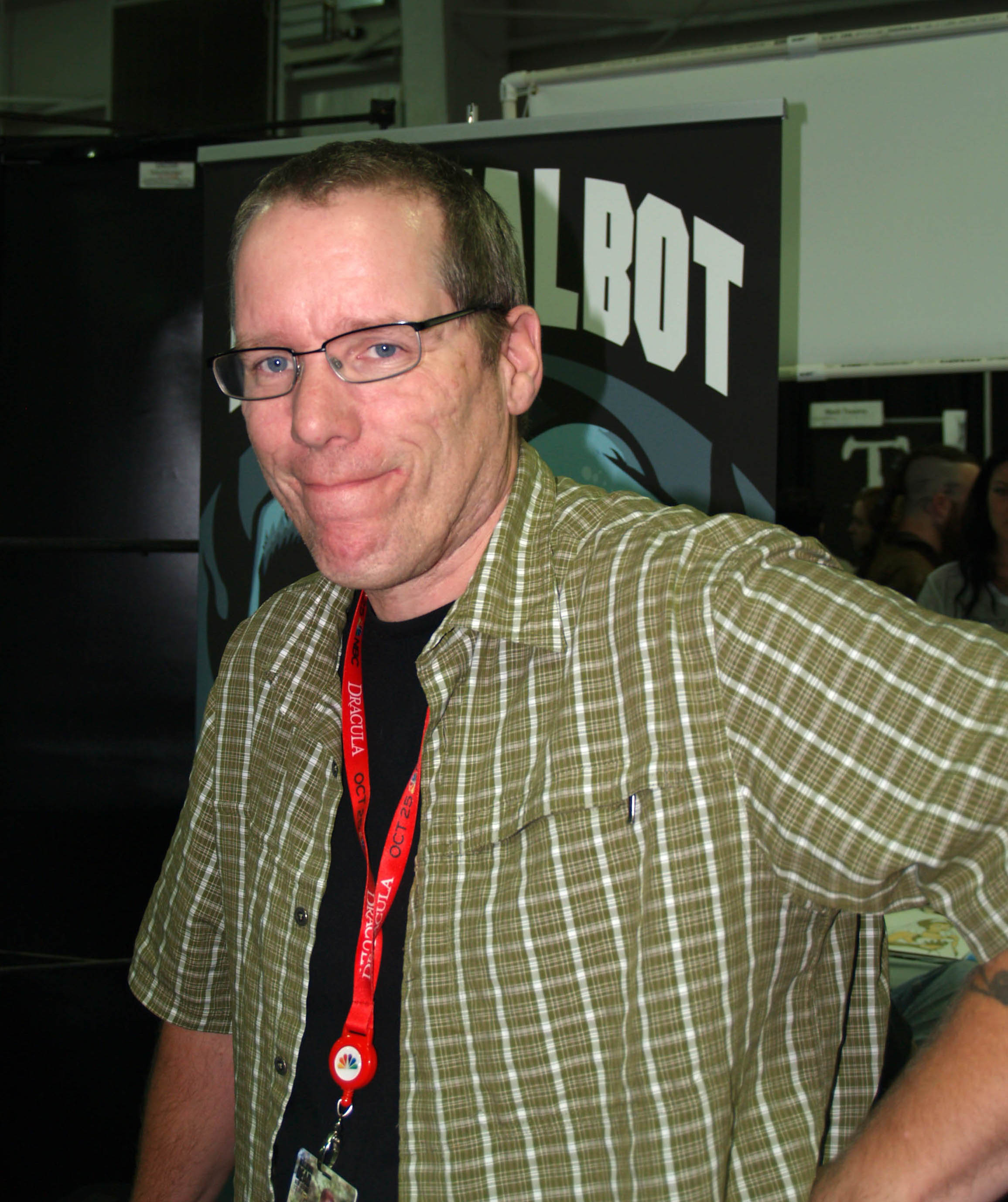 Comics writer/artist Eric Talbot on Friday, October 10, 2014 at the Jacob K. Javits Convention Center in Manhattan, Day 2 of the 2014 New York Comic Con. This photo was created by Luigi Novi. It is not in the public domain, and use of this file outside of the licensing terms is a copyright violation.